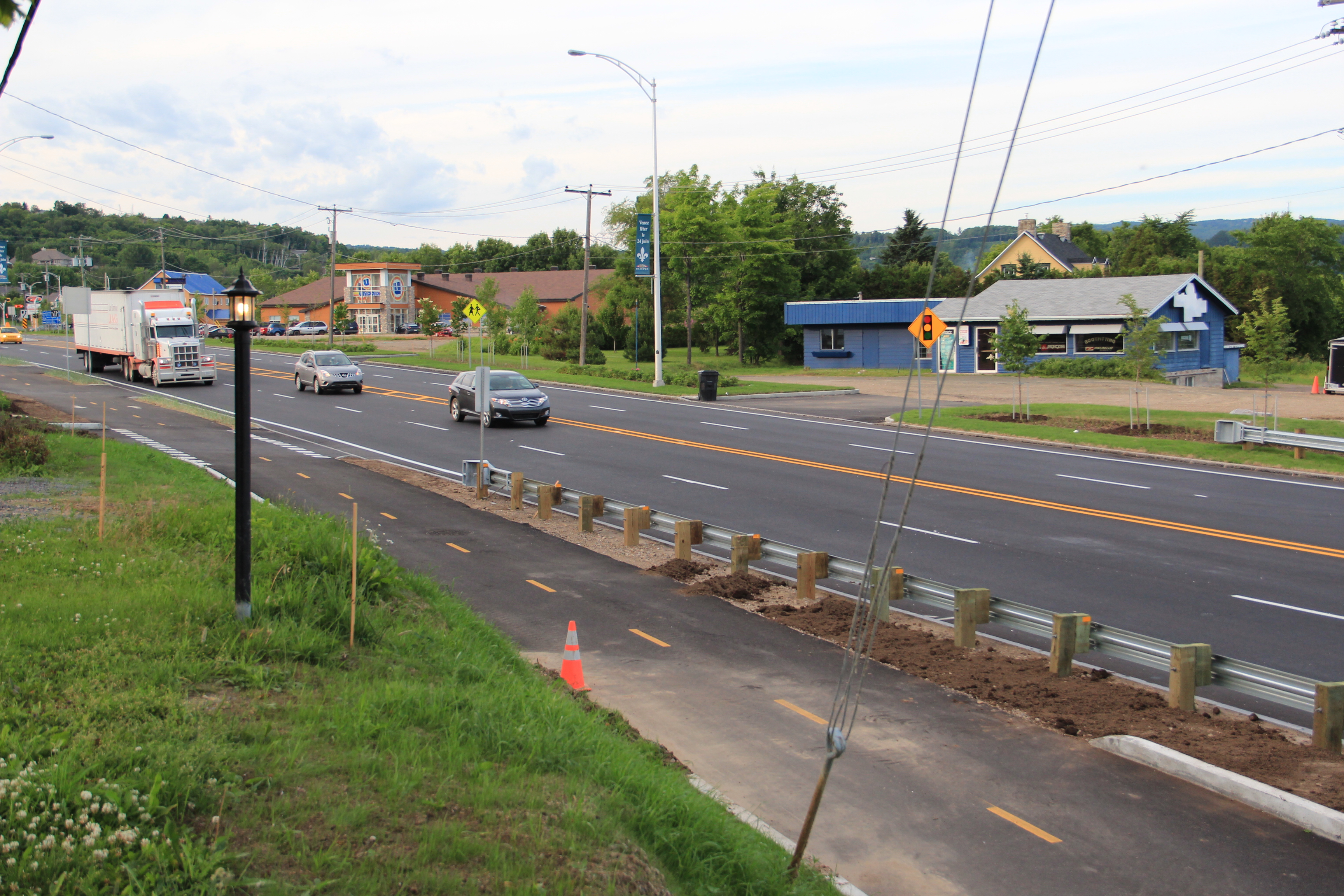 Quebec Route 138 in Beaupré, Quebec